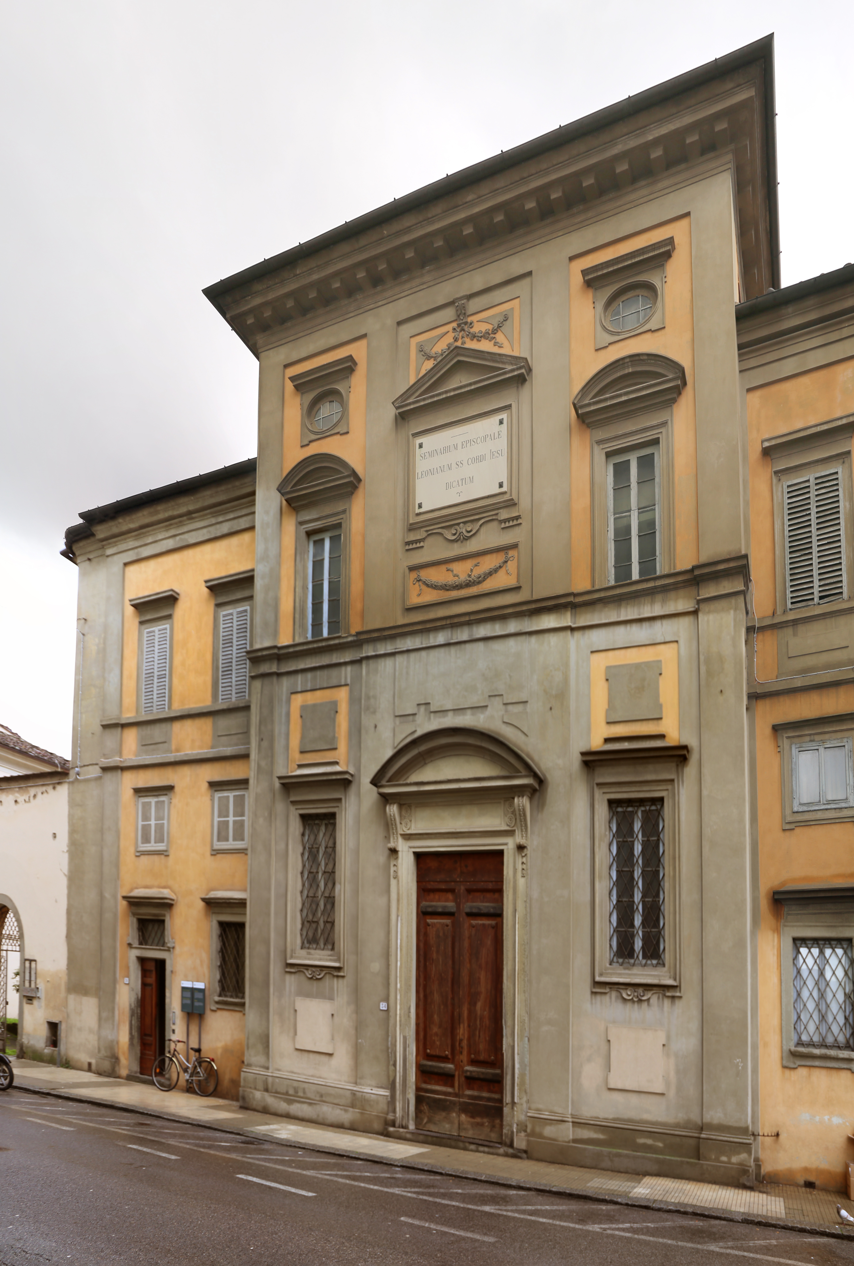 Seminario vescovile (Pistoia)